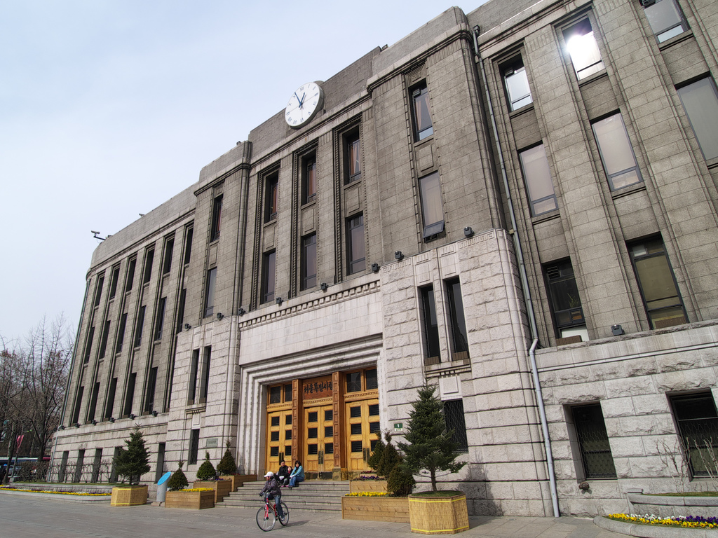 Seoul City Hall